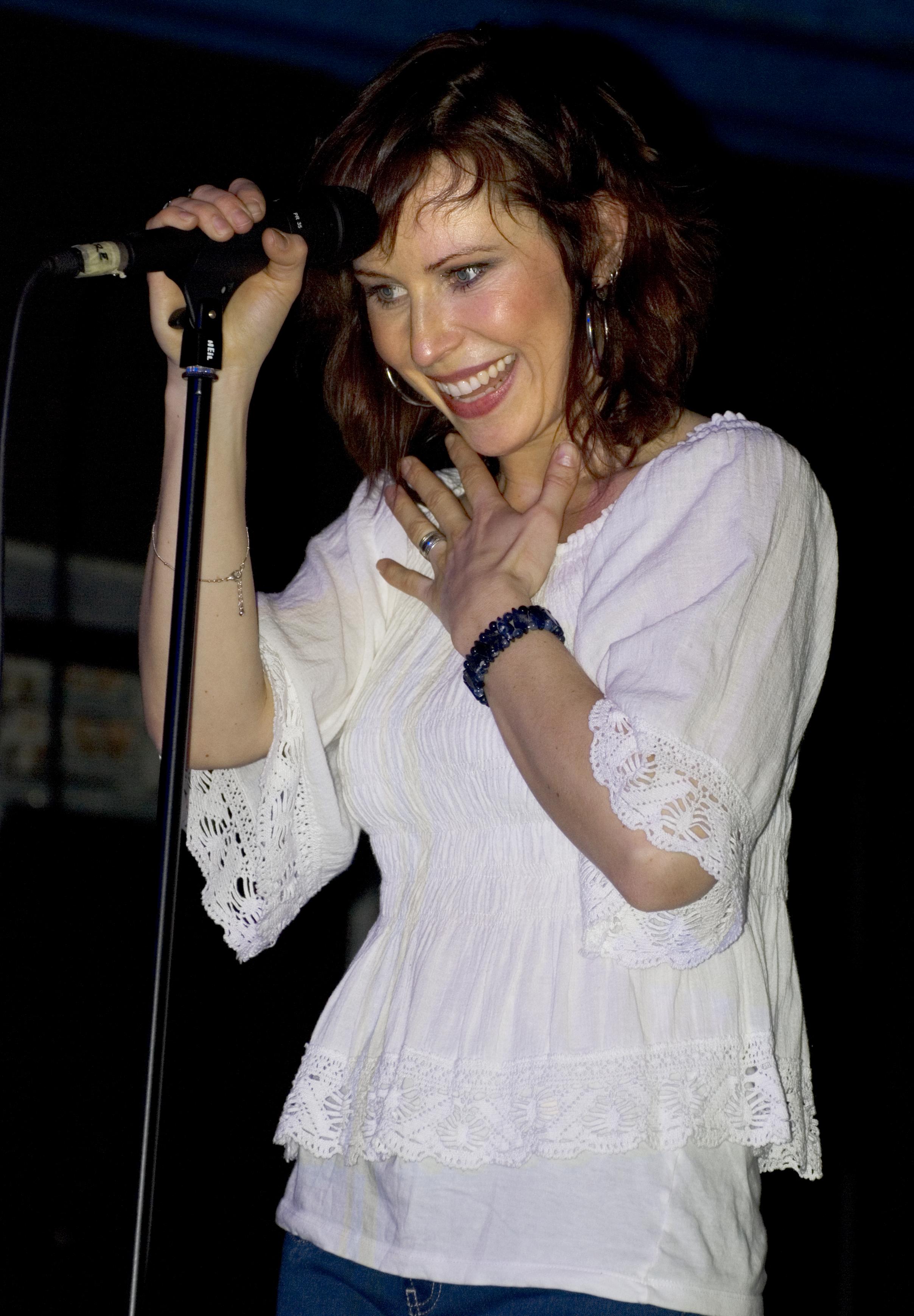 Silje Wergeland, singer of The Gathering. Budapest concert, 31 January 2010.